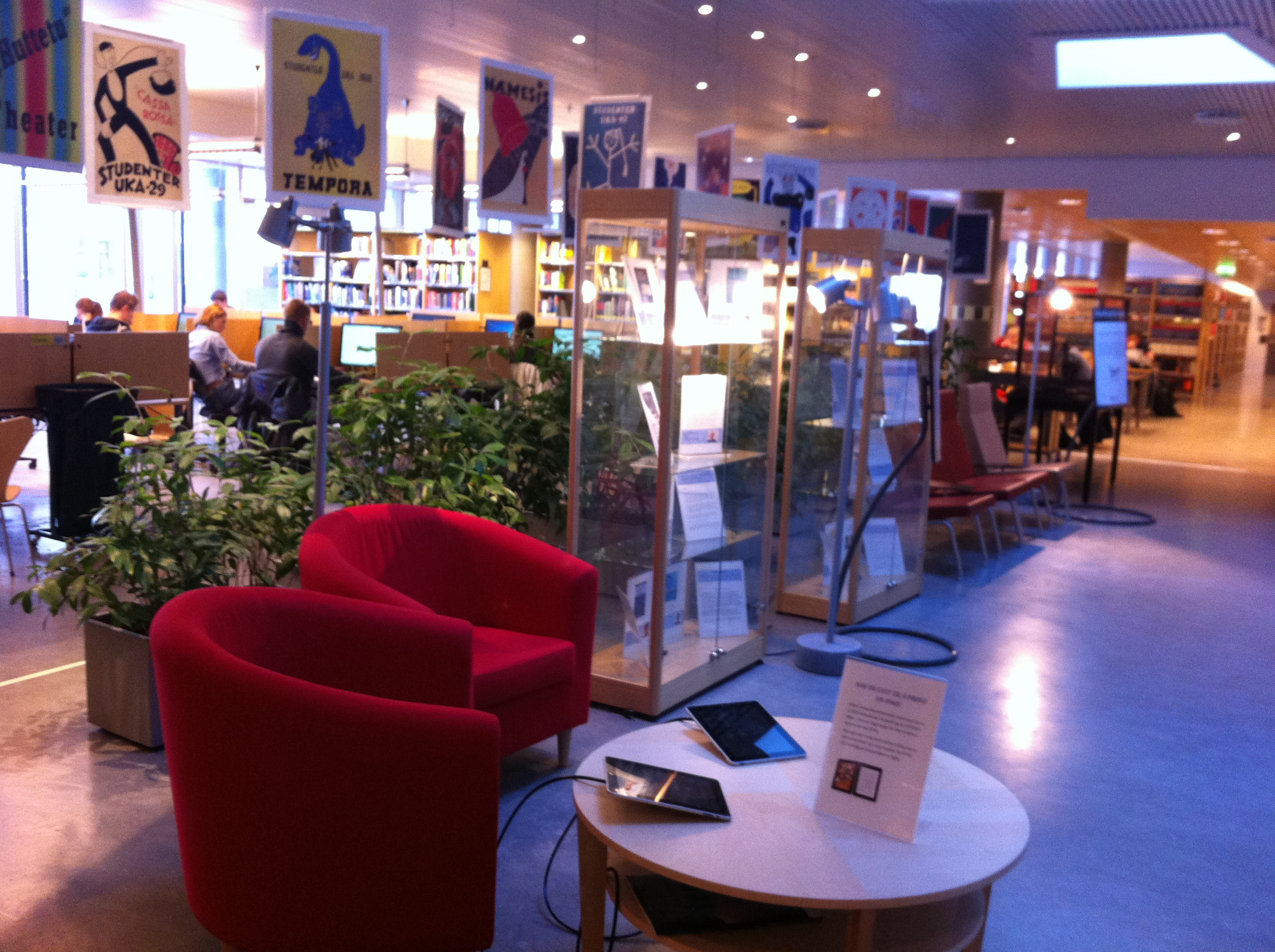 Interior of the Natural Science Library at NTNU; Trondheim, Norway